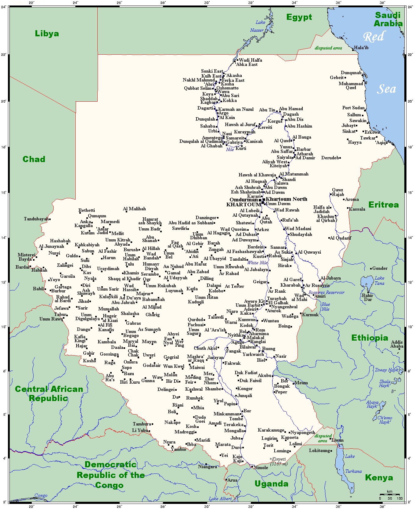 Map of Cities, towns and selected villages in Sudan.